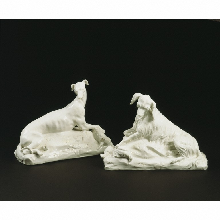 Dogs, about 1749, Chelsea Porcelain factory V&A Museum no. C.246A-1976 Techniques Soft-paste porcelain Artist/designer - Chelsea Porcelain factory Nicholas Sprimont (23/01/1716 - 22/06/1771) possible modeller Place - London, England Dimensions- Height 13.4 cm Width 19.6 cm Depth 8.4 cm Object Type - This is a small sculpture of a retrieving setter with two dead partridges and a greyhound with a dead hare. The pair were purely ornamental, and would probably have been displayed on a mantelpiece, in a glazed cabinet, or on another domestic furnishing. Their backs are comparatively uninteresting, so they were probably not intended to be seen from all sides. People The dogs were probably modelled by Nicholas Sprimont (1716-1771), the manager of the Chelsea porcelain factory. Sprimont is a rare instance of an English porcelain entrepreneur with design skills. A visitor to England around 1750 commented that 'an able French artist' supplied 'or directs the models' of everything made at Chelsea (Sprimont wasn't actually French, but was from a French-speaking part of Flanders). According to his widow, Sprimont had 'by his superior skill and taste in the arts of drawing and modelling and painting instructed and perfected several apprentices, workmen and servants'. He was also a gifted designer of silver, in which craft he had worked before setting up the Chelsea factory.